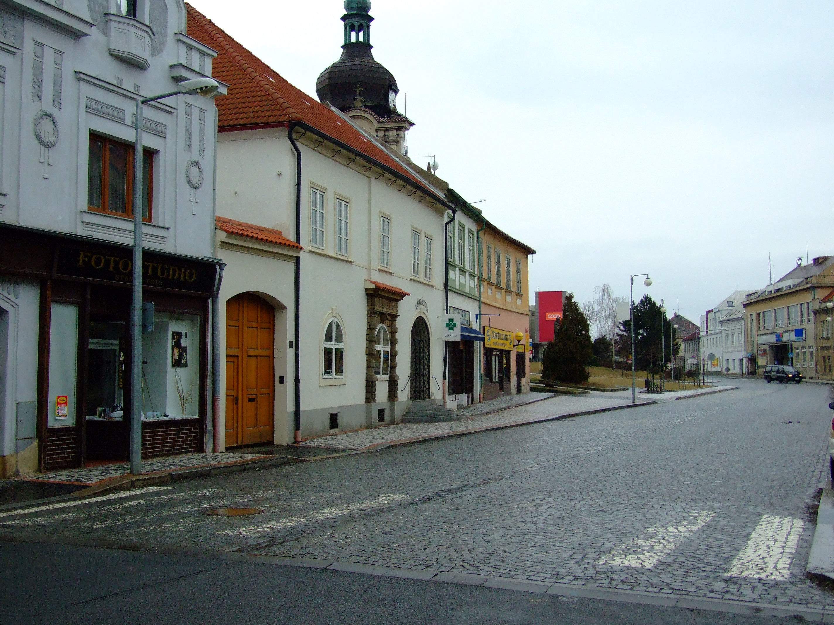 Town Unhošť in Central Bohemian region, CZhelp